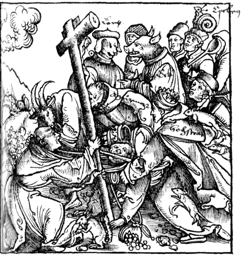 Title woodcut of Anonymus (Urbanus Rhegius?) Die Luterisch Strebkatz Worms: Peter Schöffer d.J. 1524